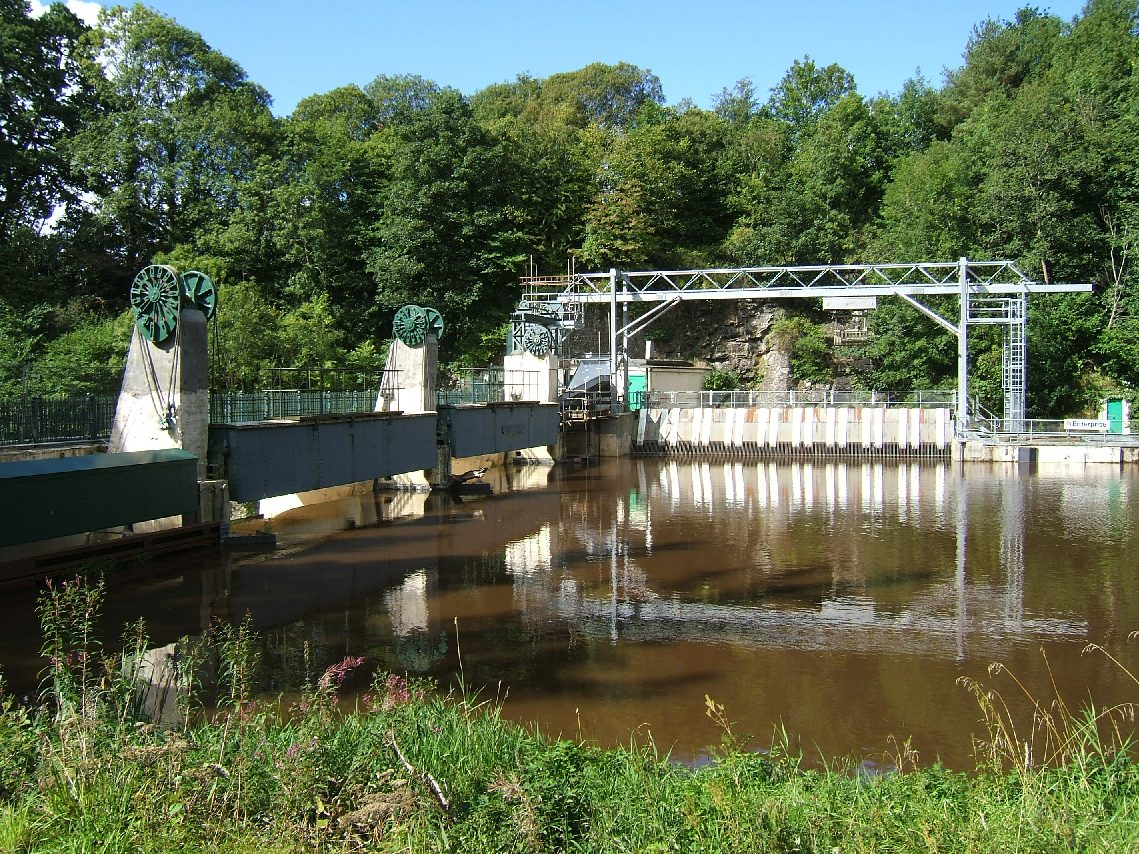 The Stonebyres Power Station dam.